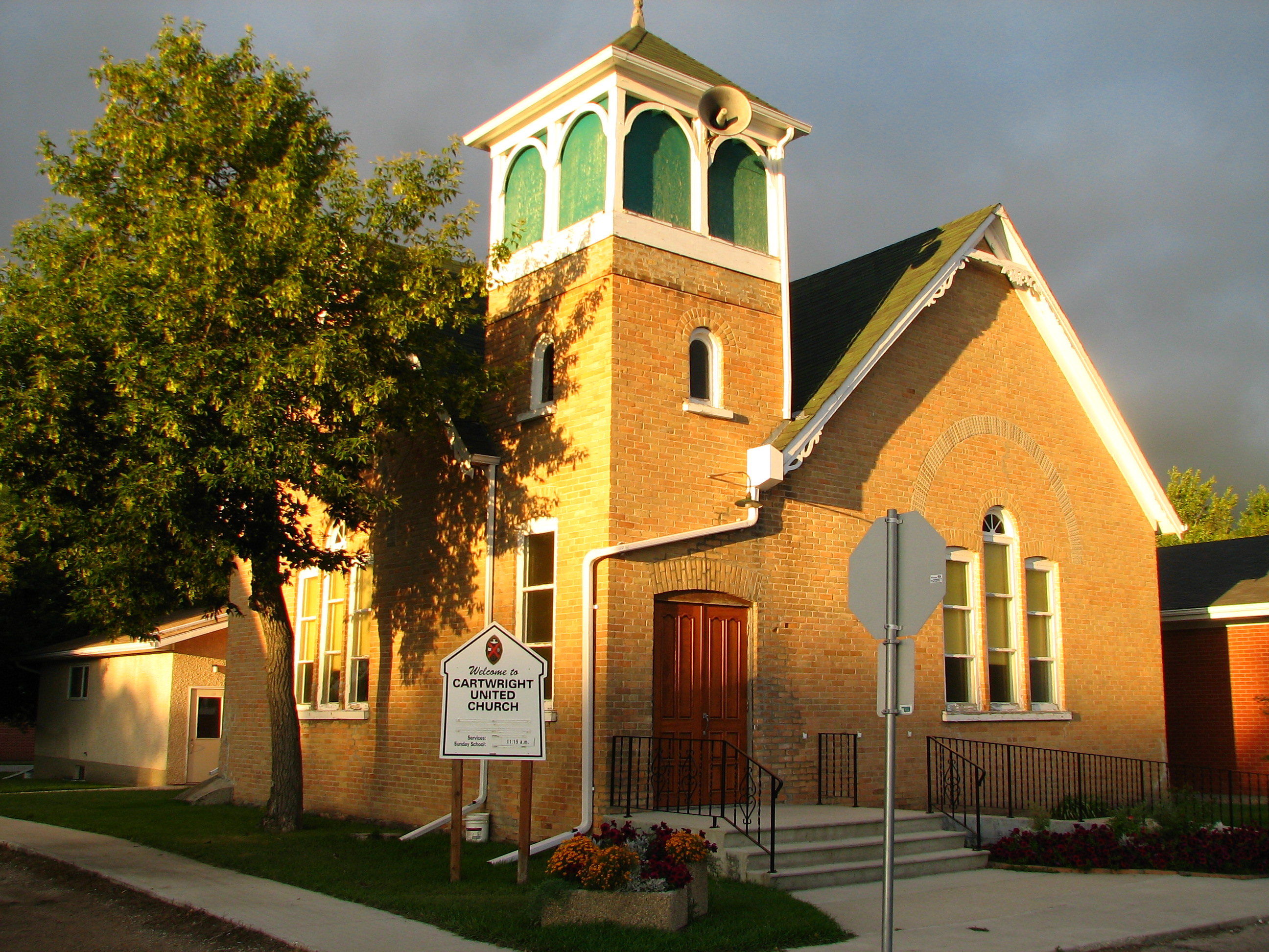 Cartwright United Church on August 21st 2009, at 7:22 p.m.,Cartwright, Manitoba, Canada